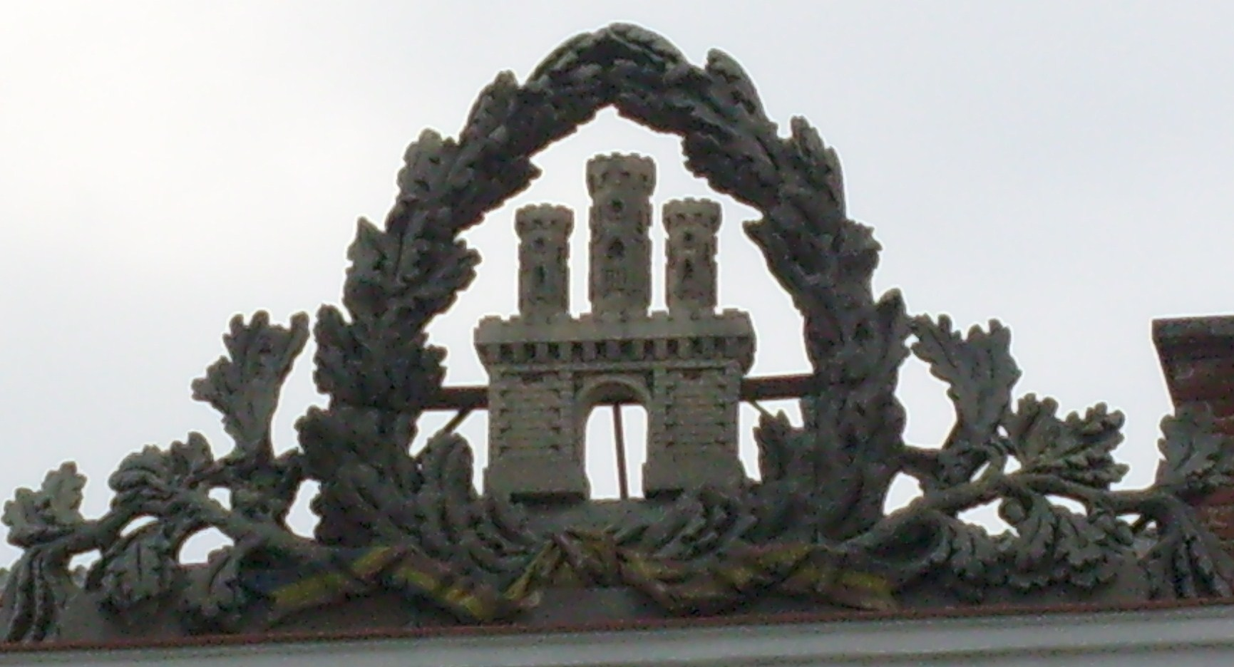 Coat of arms of the Cluj city. Located on the city hall (casa casatoriilor), Eroilor street.